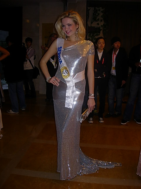 Anja Saranovic